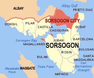 Map of Sorsogon showing the location of its 14 municipalities, Sorsogon City, and the local bodies of water. Map based upon Image:Ph_locator_sorsogon_sorsogon.png as modified by George Hernandez. Winaray : Mapa hanSorsogon nga nagpapakita kon hain nahamutangn an mga napulo kag upat (14) nga bungto, Syudad san Sorsogon, ngan an mga lokal nga mga katubigan. Mapa nga nahabase san :Image:Ph_locator_sorsogon_sorsogon.png nga gin-iba ni George Hernandez.